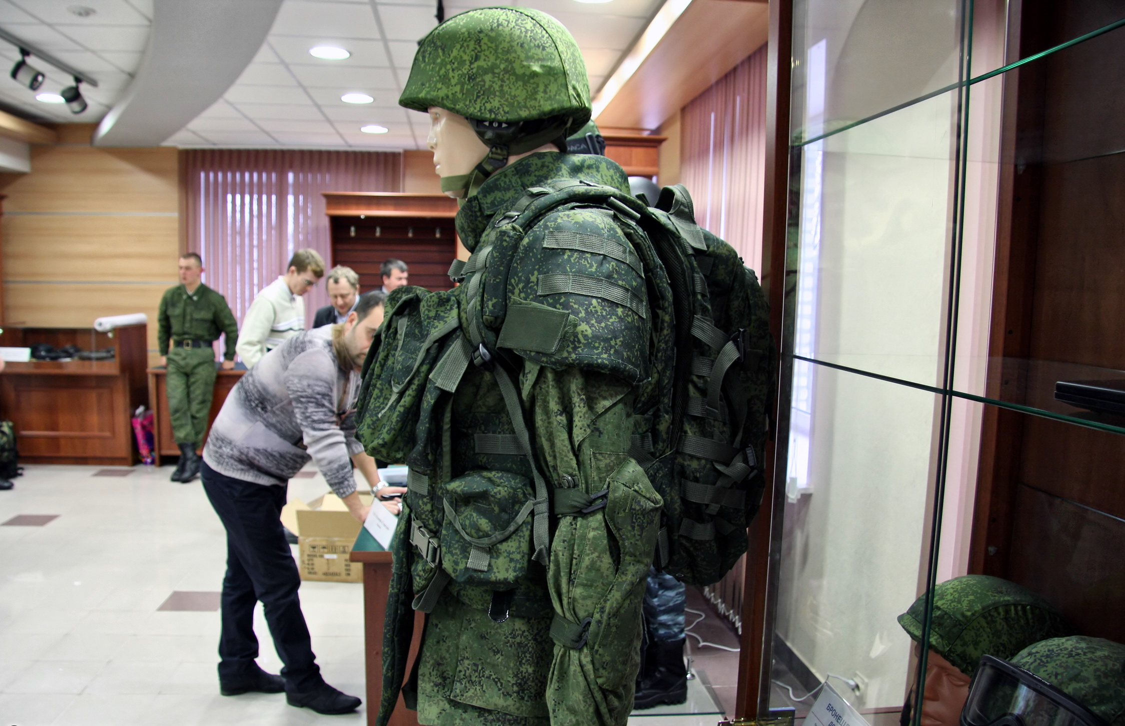 One of the variants of Barmitsa combat suit